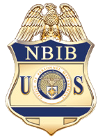 This was a badge of the former National Background Investigations Bureau, extracted from Volume 8 Issue 4 of the DCSA Access Magazine.